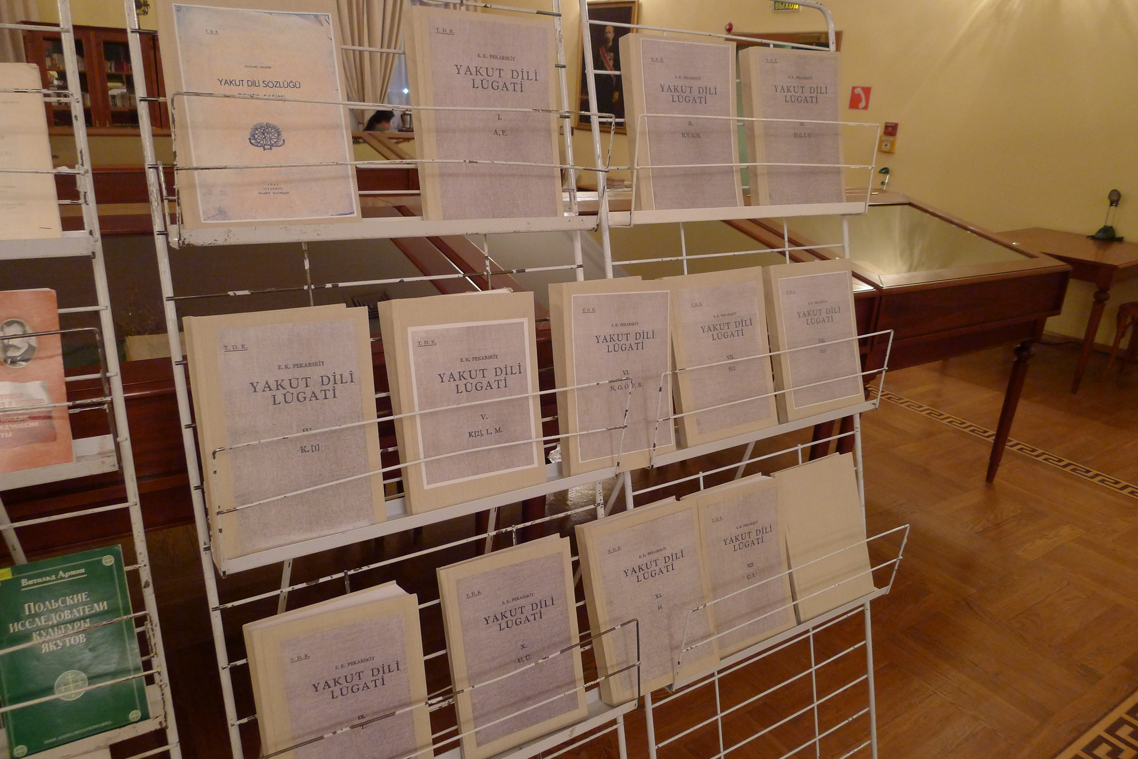 Dictionary of the Sakha (Yakut) language was translated into Turkish by the order of AtatürkTürkçe: Sahastan (Yakutistan) Milli Kütüphanesinde türkçeye çevirilmiş saha dilin sözlüğü gösterildi. Çeviri Atatürk'ün talimatıyla 30'larda yapılmıştır.